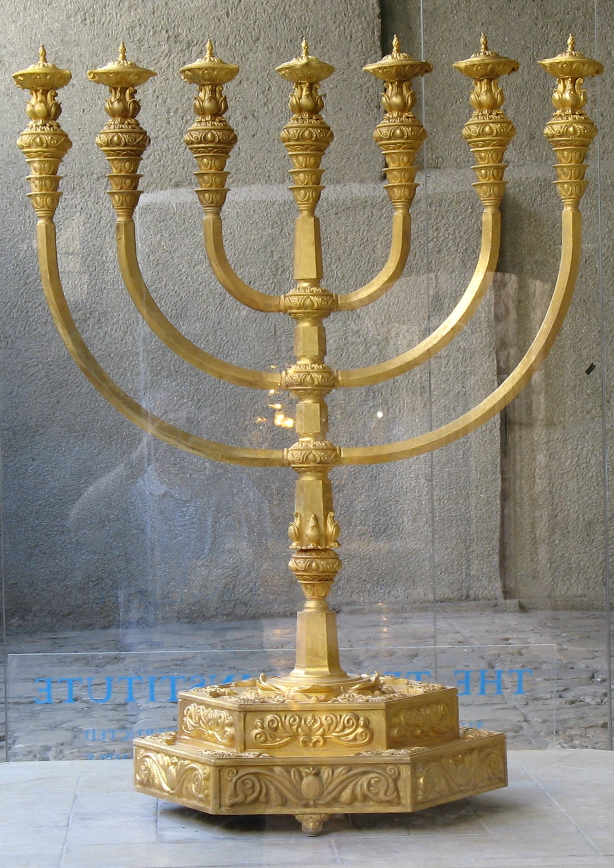 Replica of the Temple menorah, made by The Temple Institute